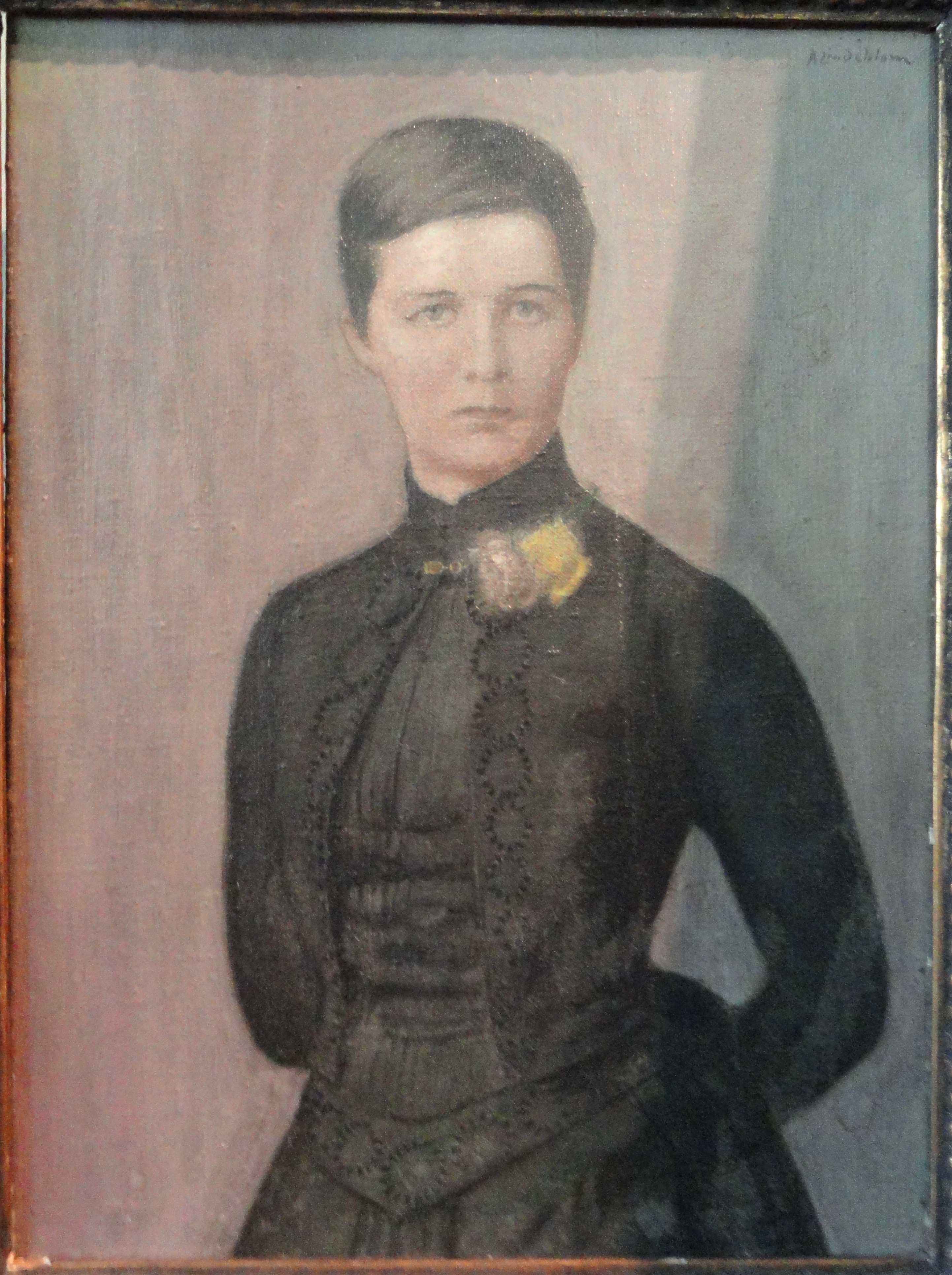 Exhibit in the Arppeanum, Helsinki, Finland. This artwork is in the public domain because the artist died more than 70 years ago.